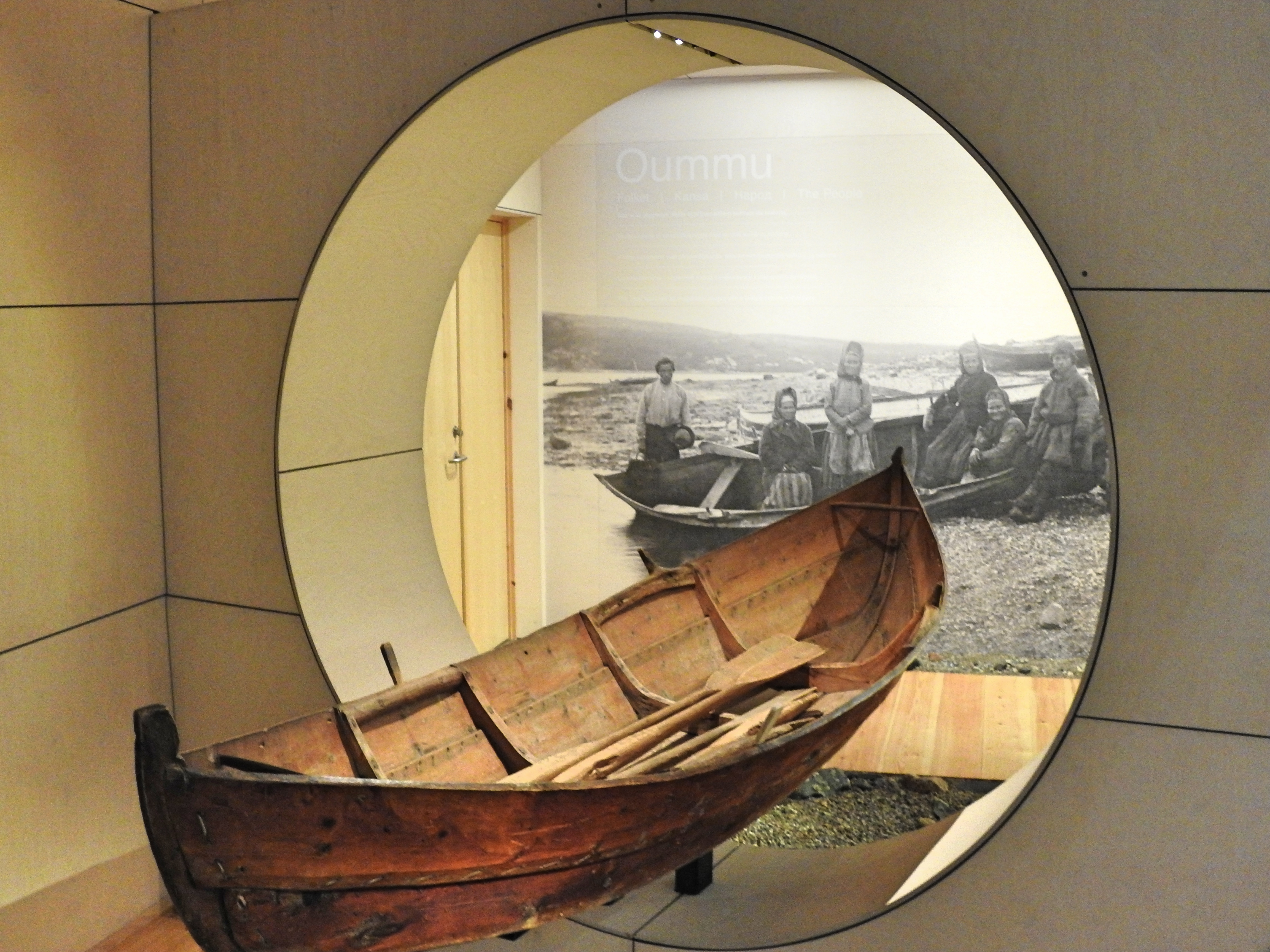 Boat of the Skoltsami exhibited at the Äʹvv Skoltsami Museum in Neiden